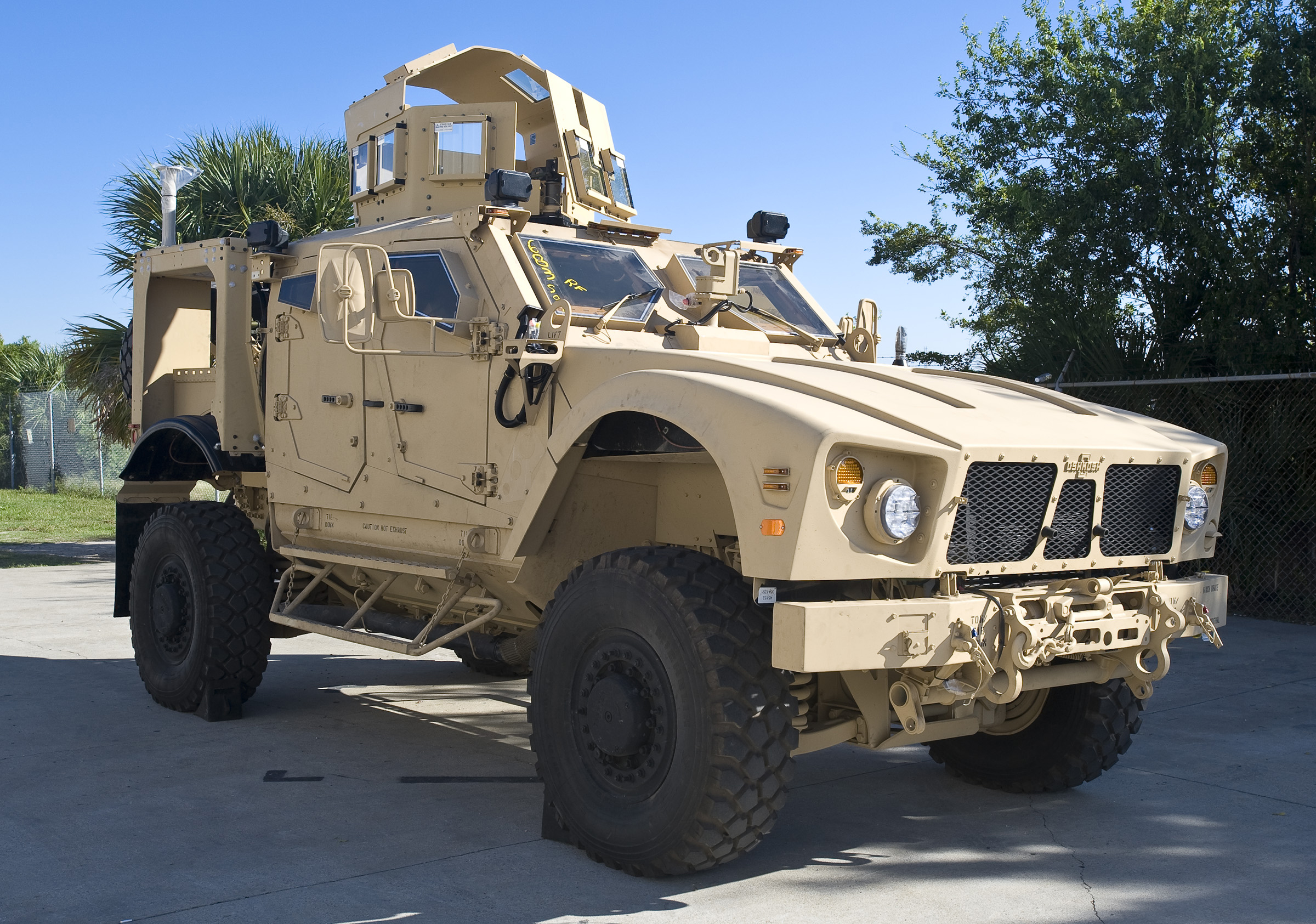 A mine resistant ambush protected all-terrain vehicle is shown at Space and Naval Warfare Systems Center Atlantic. The vehicles are at the facility for installation of advanced electronic communications equipment. The first shipment of integrated vehicles has been flown to warfighters in Afghanistan.